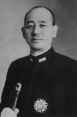 Hibino is an officer in the Imperial Japanese Navy.